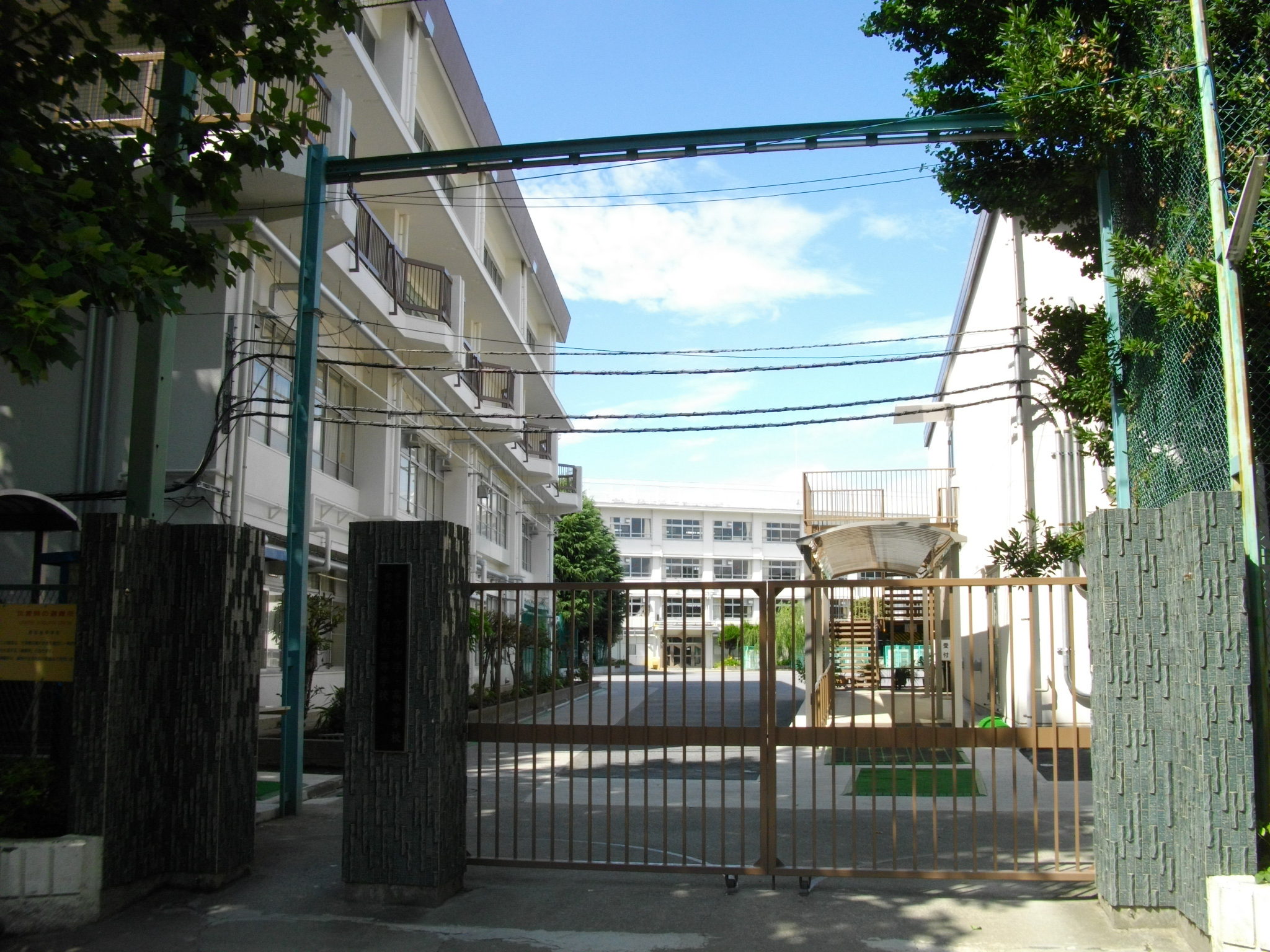 Former Akabanedai Junior High School